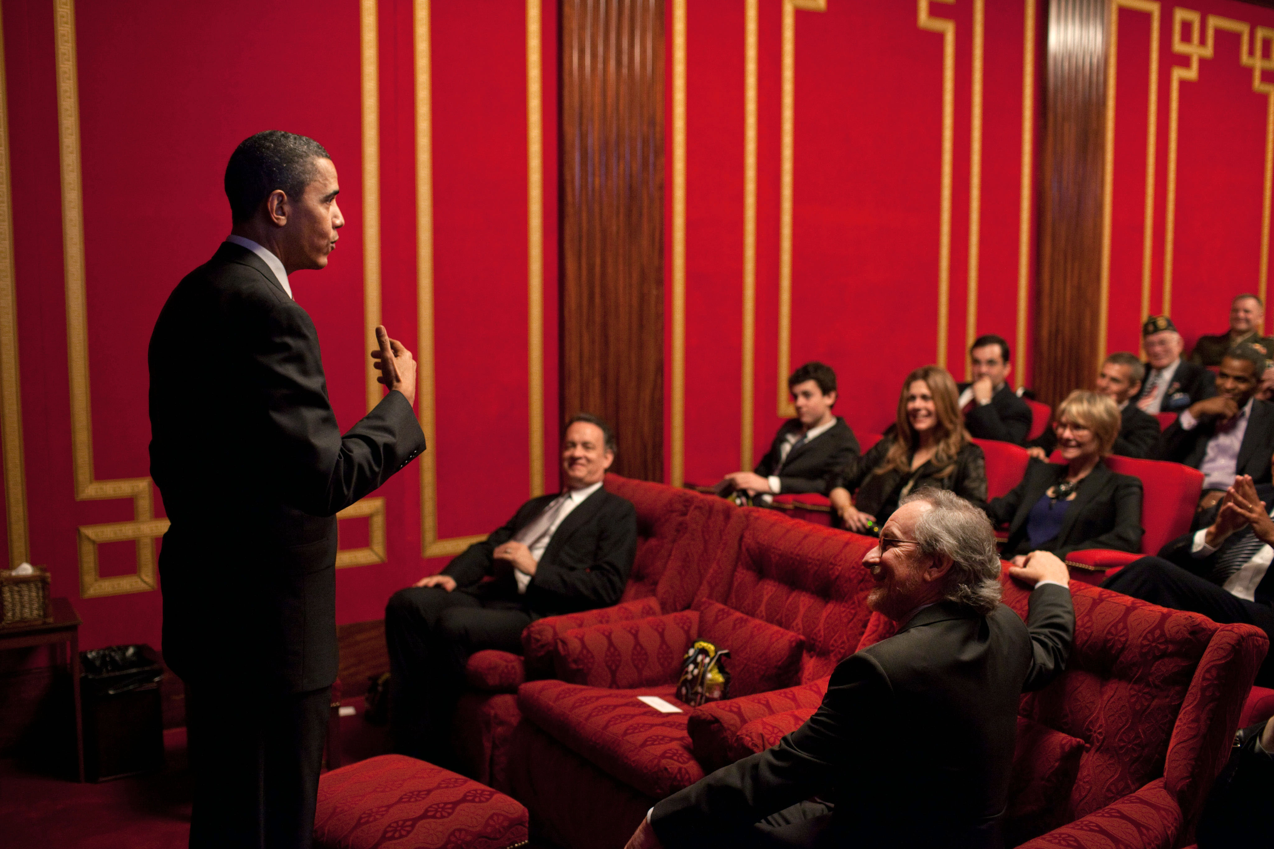 President Barack Obama delivers remarks before a screening of the HBO ten-part World War II miniseries "The Pacific" in the Family Theater of the White House, March 11, 2010. Tom Hanks and Steven Spielberg, the two executive producers of "The Pacific", sit in the front row. (Official White House Photo by Pete Souza) This image is a work of an employee of the Executive Office of the President of the United States, taken or made as part of that person's official duties. As a work of the U.S. federal government, the image is in the public domain.